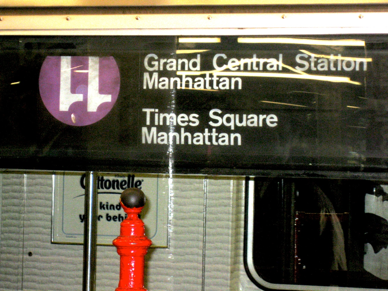 New York City Subway 11 train sign on an S shuttle train at Times Square